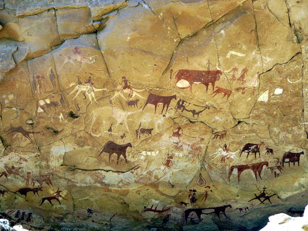 These prehistoric rock paintings are in Manda Guéli Cave in the Ennedi Mountains, Chad, Central Africa. Camels have been painted over earlier images of cattle, perhaps reflecting climatic changes.